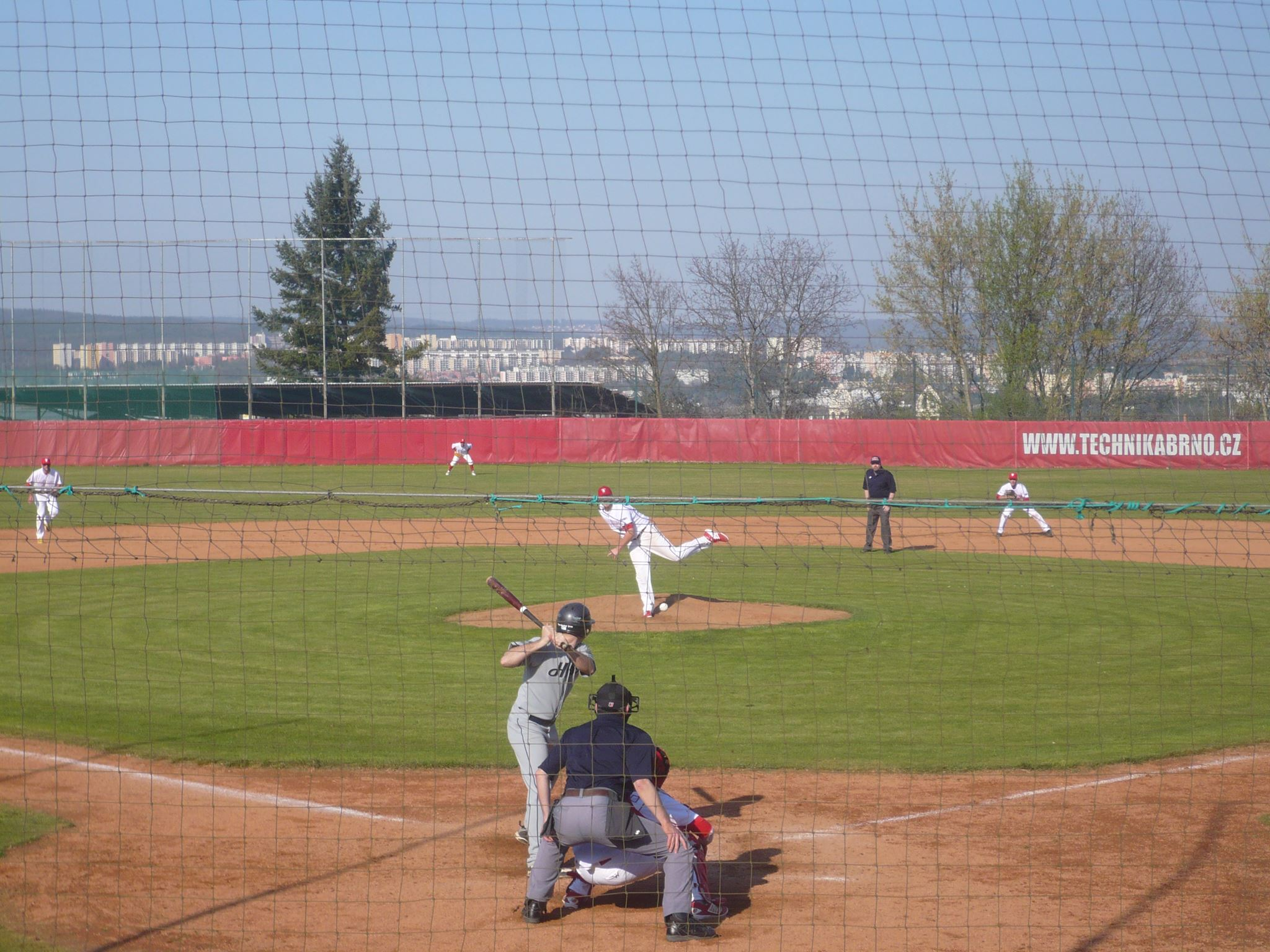 Hroši Brno vs. VSK Technika Brno, 1st April 2017.